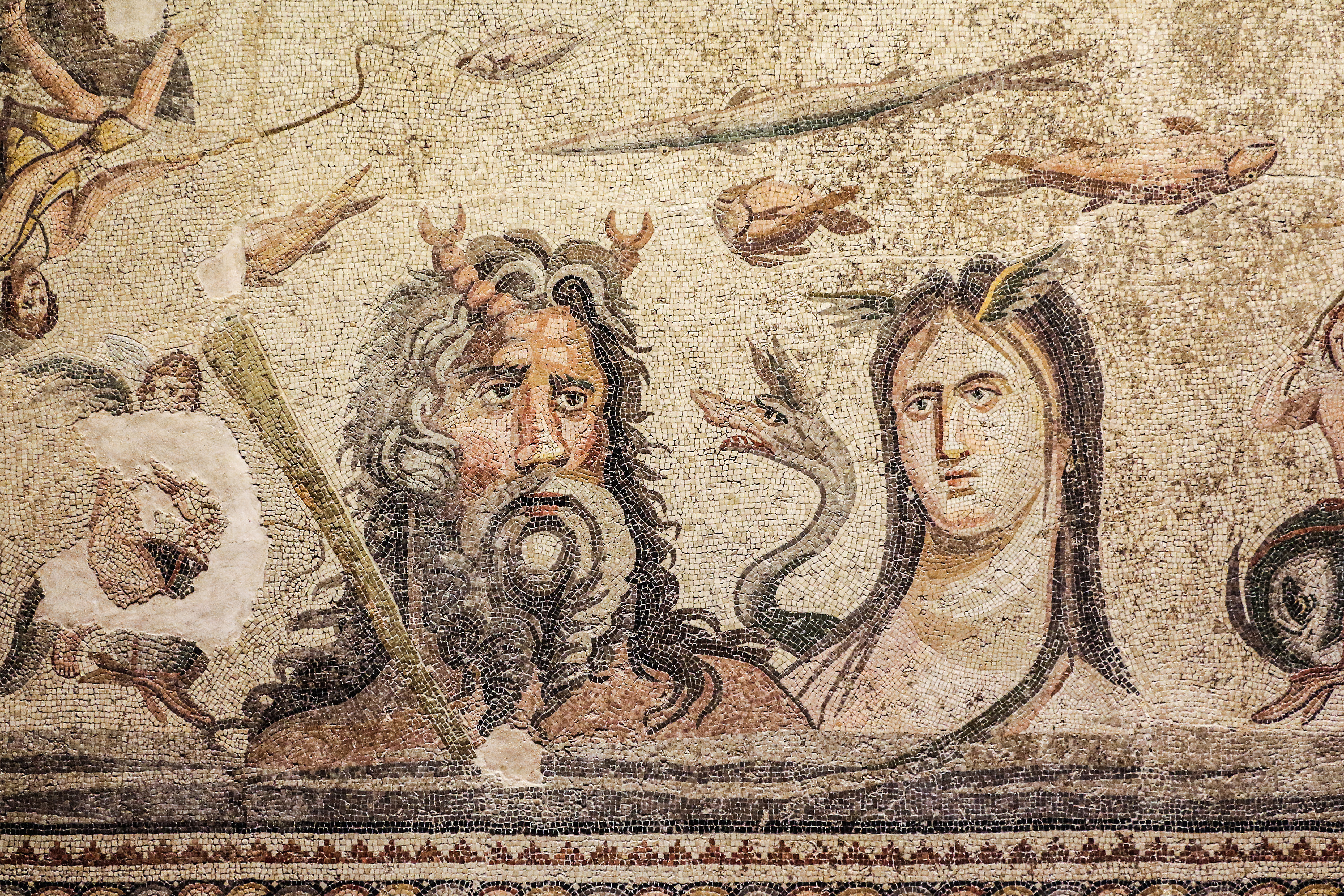 The Oceanus and Tethys Mosaic in the Zeugma Mosaic Museum, Gaziantep, Turkey